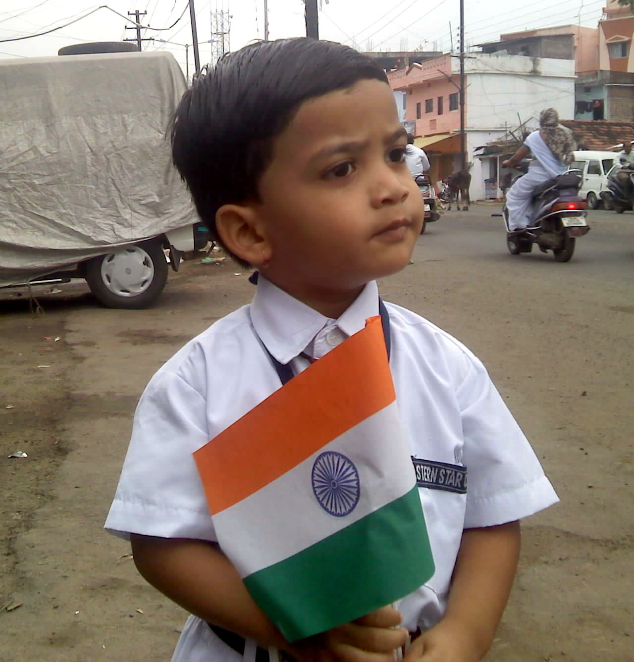 A kid ready for school on Independence Day. Independence Day brings a special zeal in the school-going kids. Personality rights warningAlthough this work is freely licensed or in the public domain, the person(s) shown may have rights that legally restrict certain re-uses unless those depicted consent to such uses. In these cases, a model release or other evidence of consent could protect you from infringement claims.